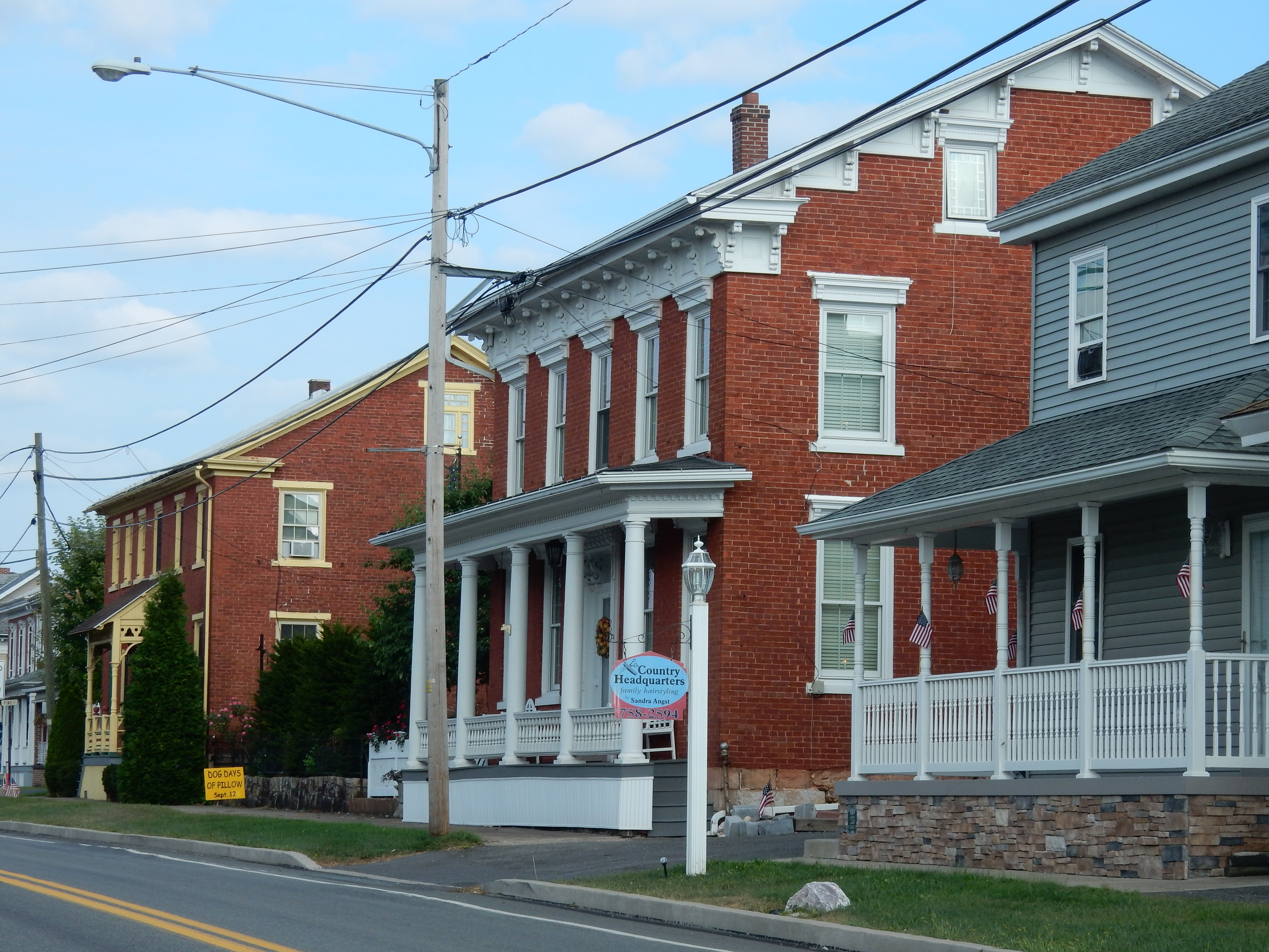 View of Market Street, Pillow, Dauphin County, Pennsylvania.